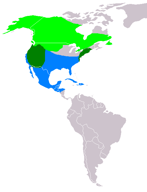 Distribution of Anas carolinensis Light Green - nesting area Blue - wintering area Dark Green - resident all year